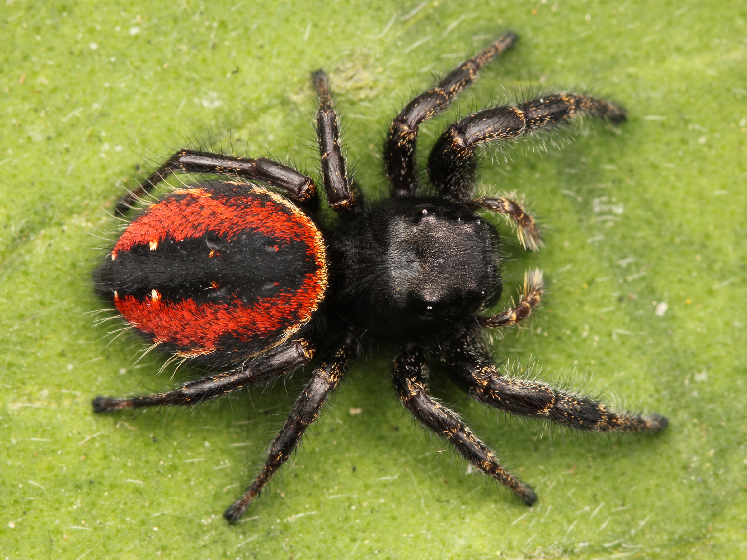 Adult female Phidippus johnsoni jumping spider. Found at China Camp State Park, California.